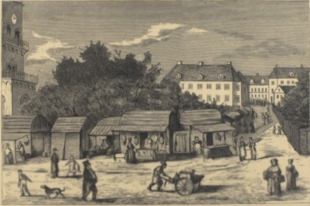 The meat market at the ruin of St. Nicolas' Church in Copenhagen, Denmark